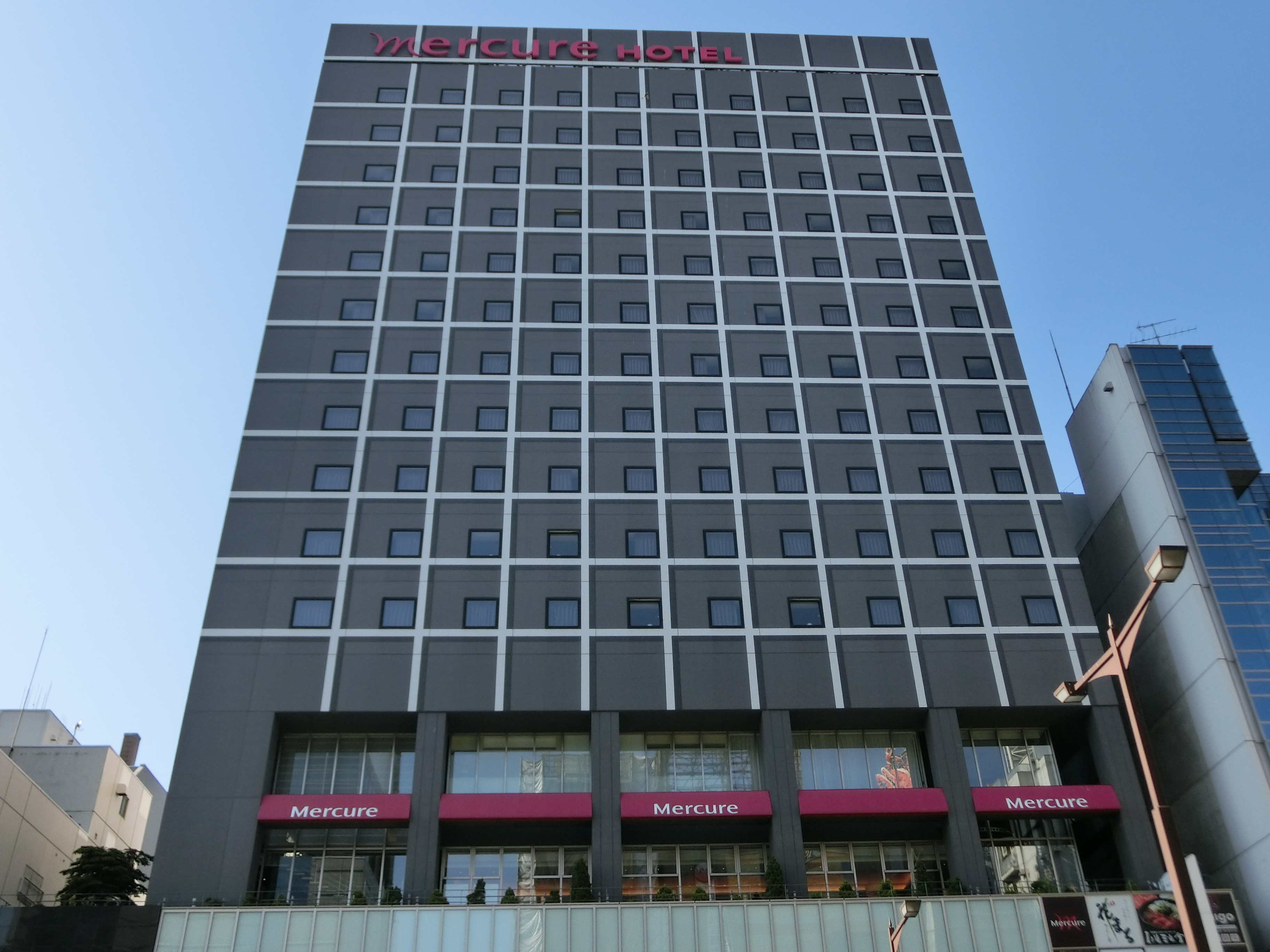 Mercure Sapporo